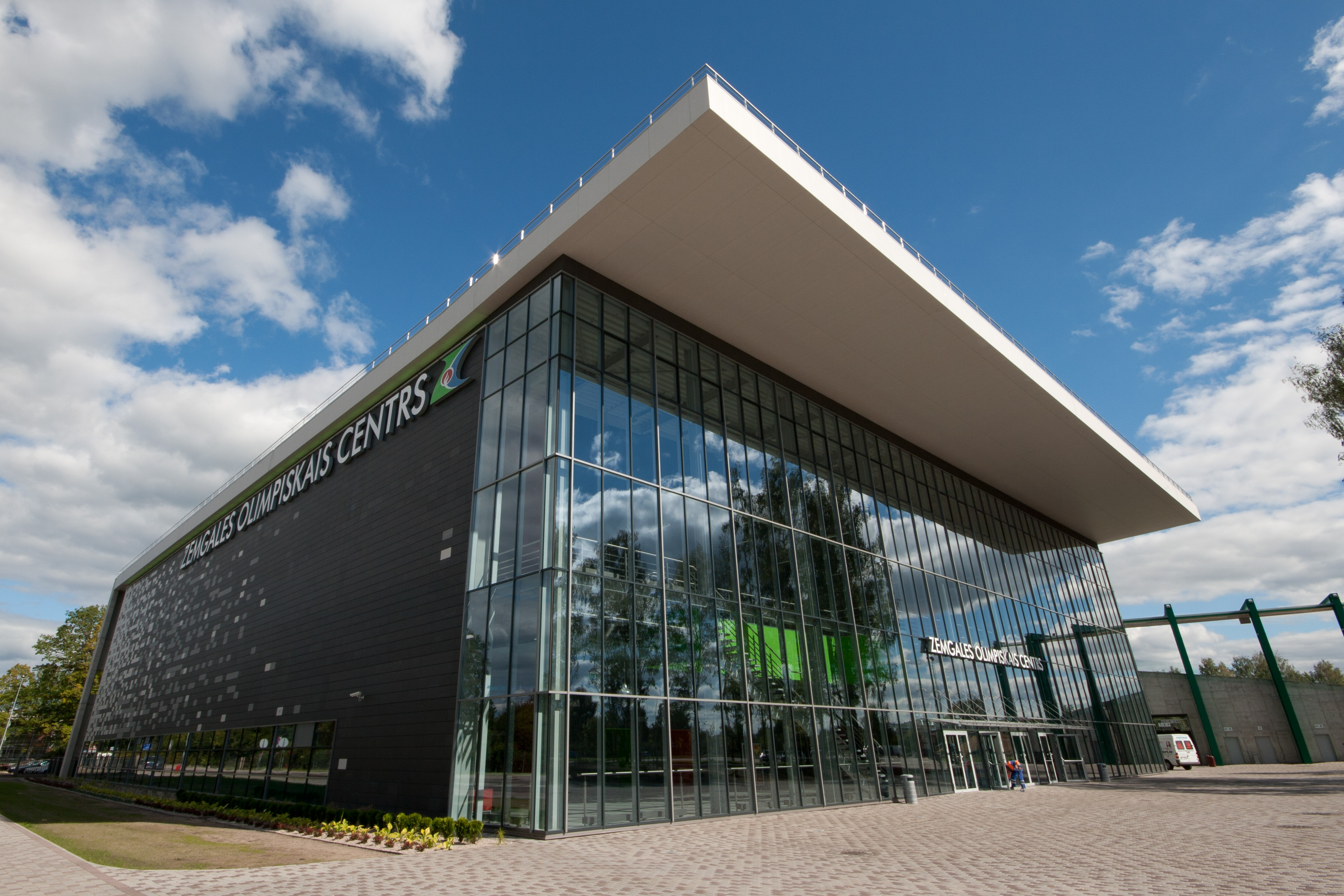 Zemgale Olympic Center building